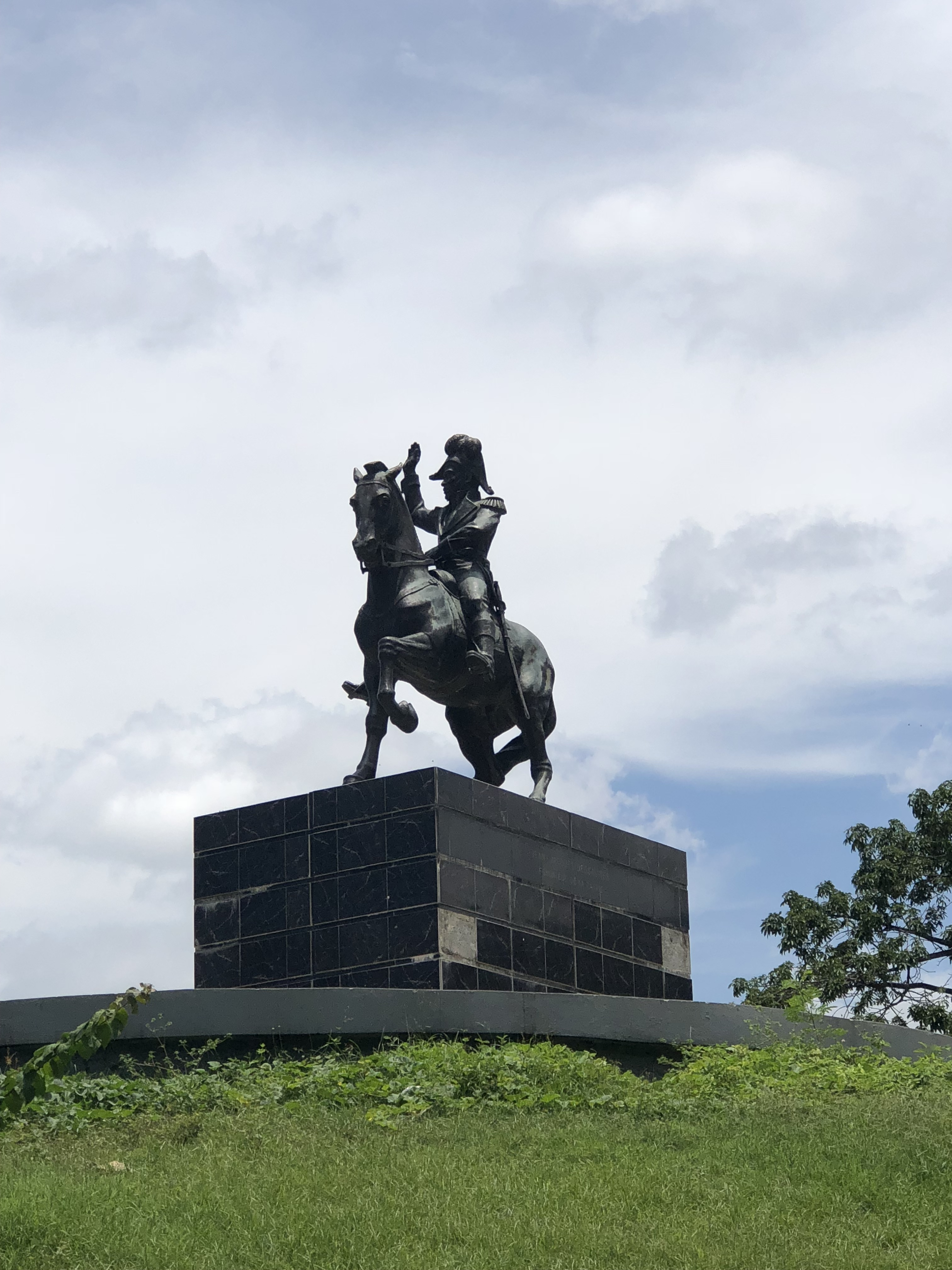 Equestrian statue of the Haitian independance leader Jean-Jacques Dessalines on the Champ de Mars in the centre of Port-au-Prince.